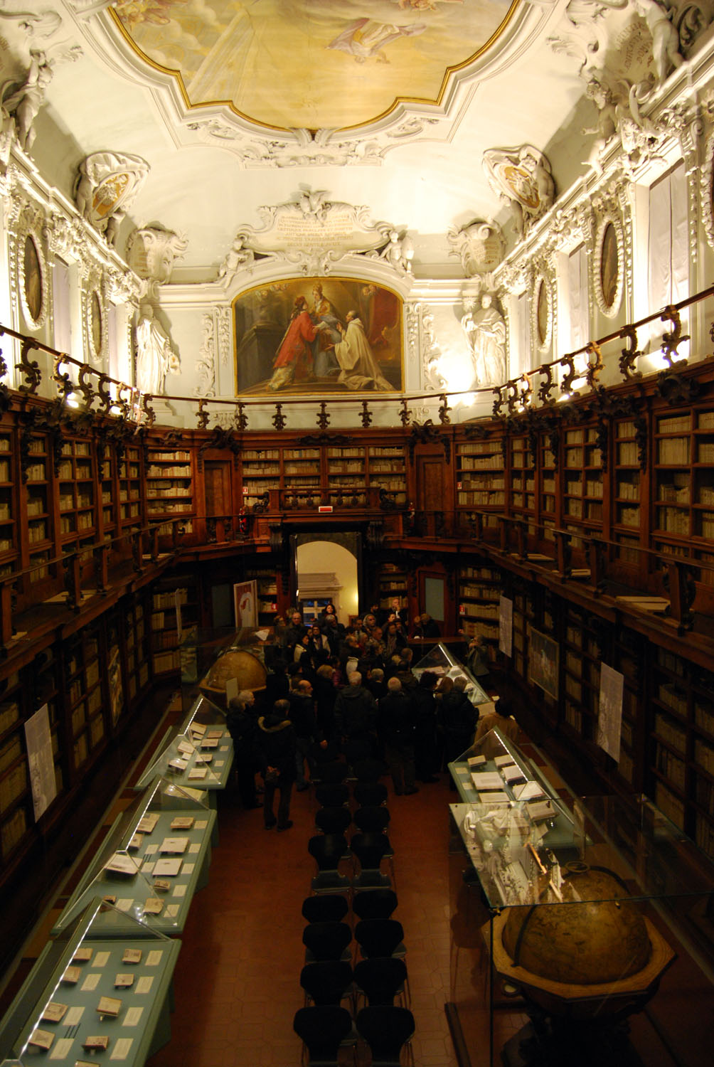 Aula Magna of the Classense Library in Ravenna (Italy)